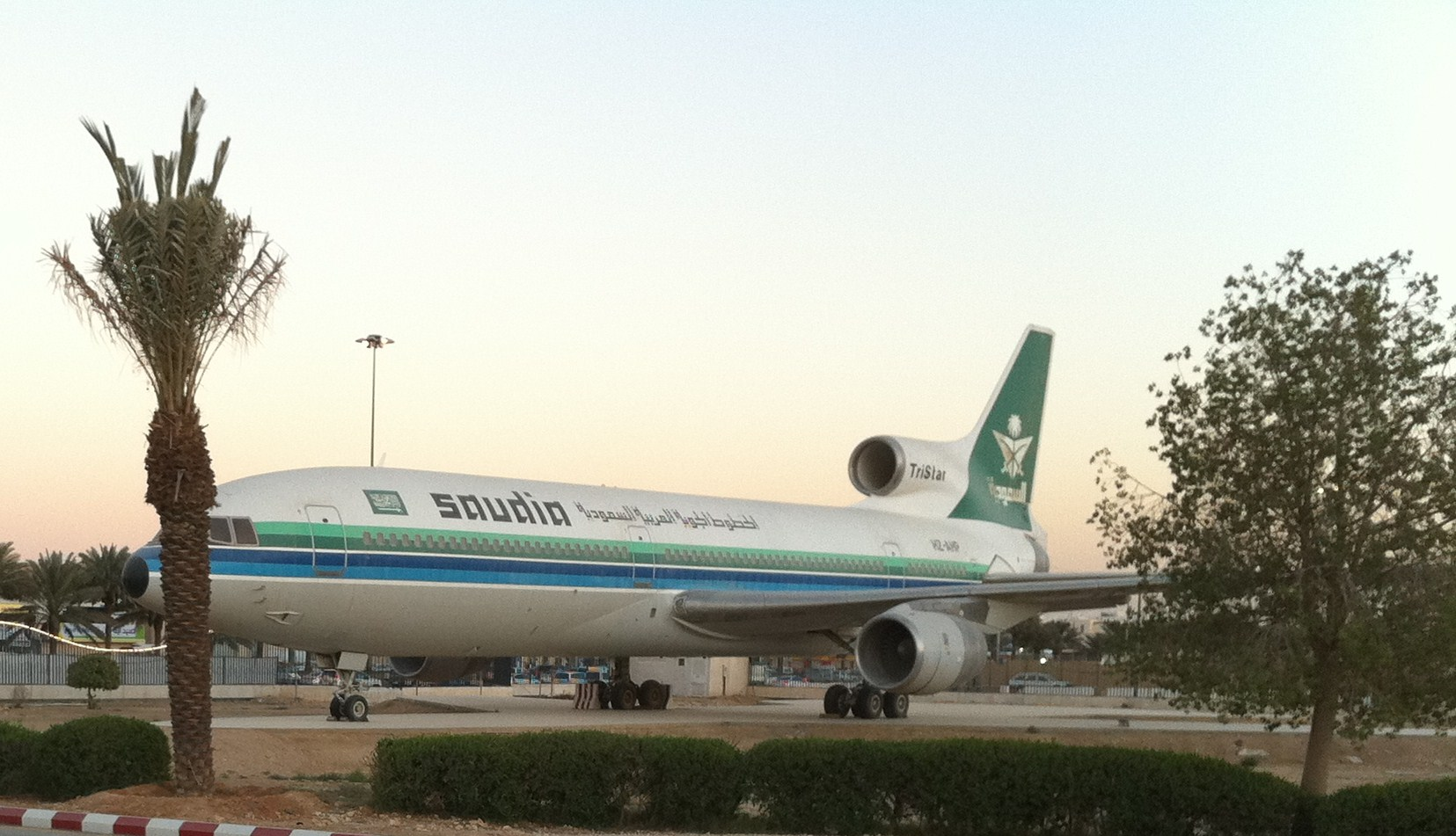 Saudia, TriStar aviation museum Riyadh